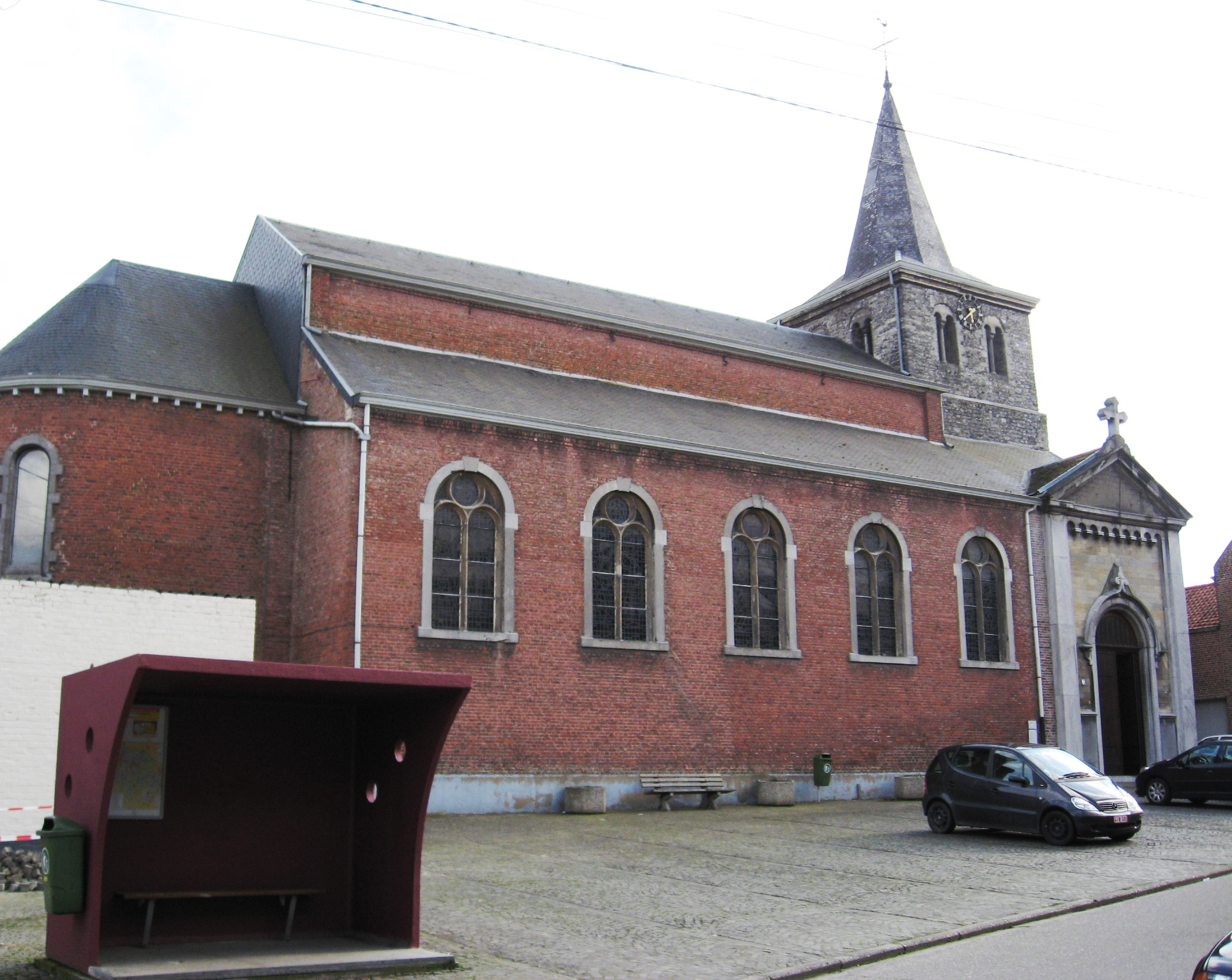 Church of Saint Clement in Oreye, Liège, Belgium